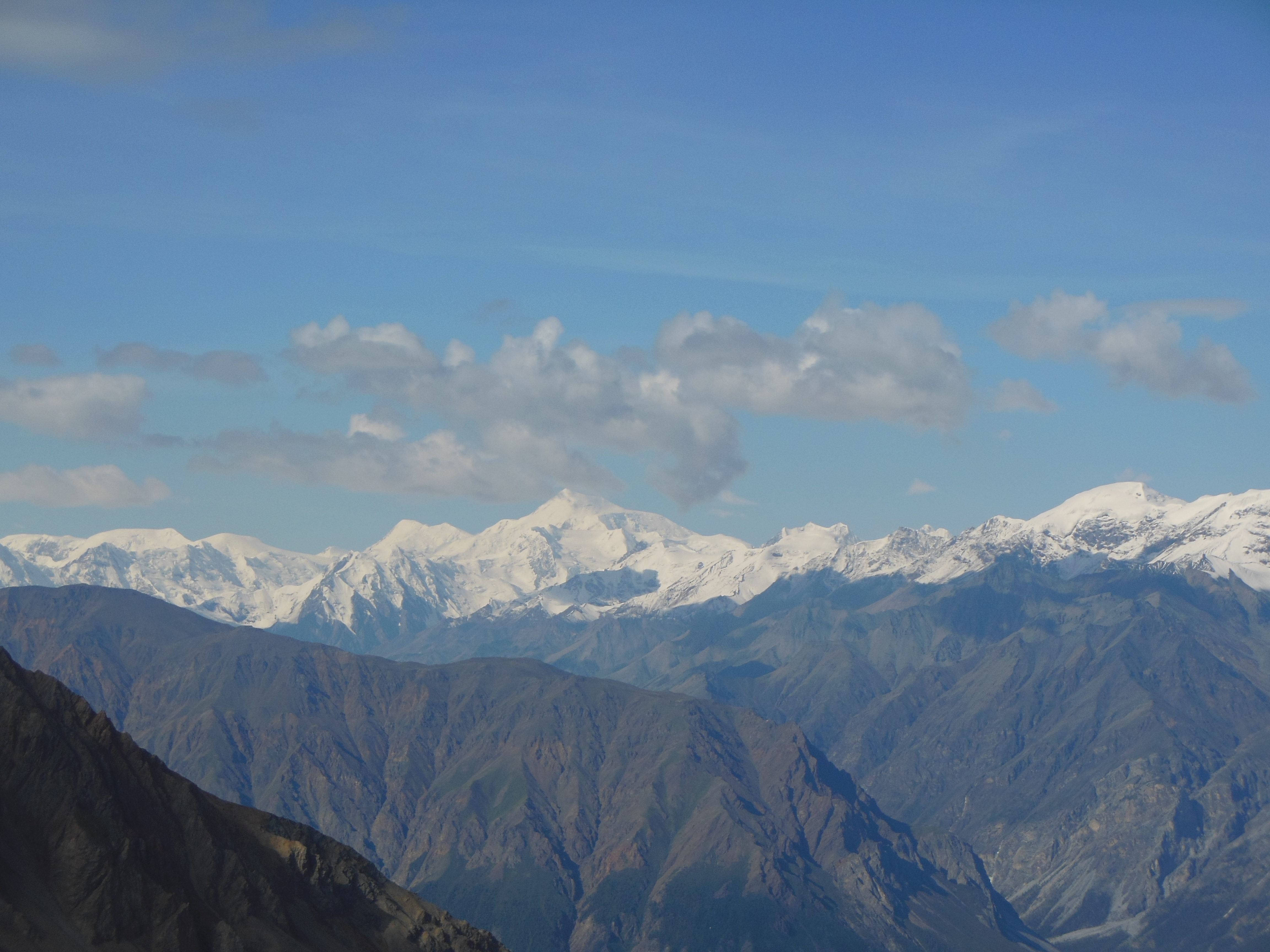 Mount Steele (center) appears to be the highest peak in sight in this view of the Saint Elias Mountains in Kluane National Park in Canada, looking southwest from mountains above the Donjek River. However, Mount Lucania—which appears just left of Mount Steele—is actually higher.